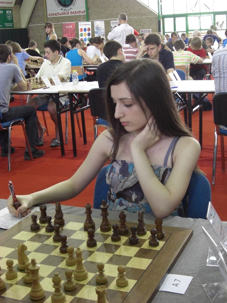 Nazi Paikidze during Polonia Wroclaw's 5th International Chess Tournament (2010)